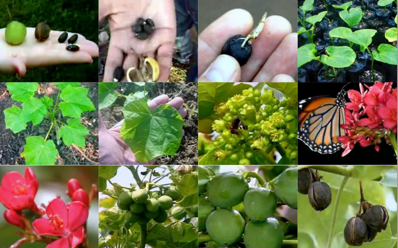 Differents stages of Jatropha curcas growth